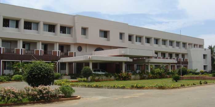 collegephoto